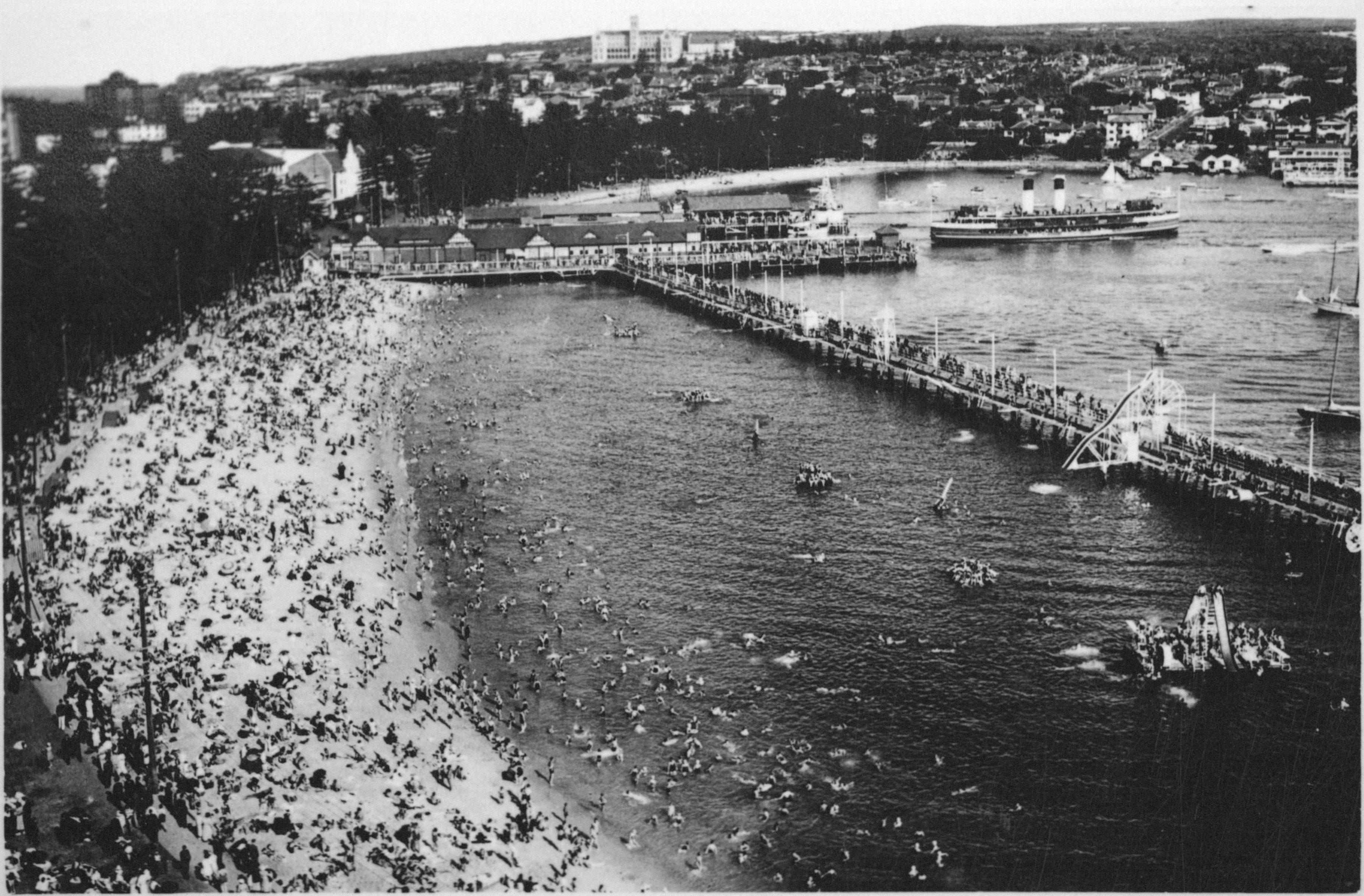 The beach in Manly Cove - historic photo (item PXB 417/238 in the SLNSW)